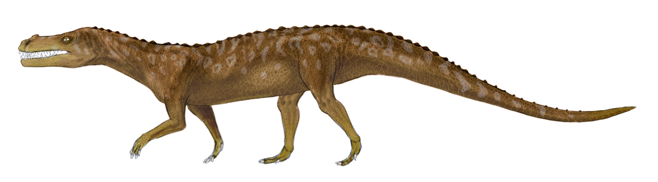 Life resotoration of this gracile Archosaur.